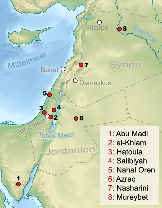 Map of Khiamian sites.